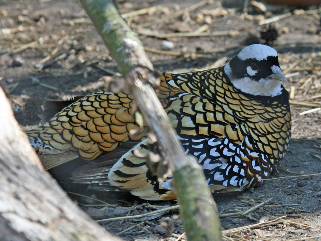 Reeve's Pheasant (Syrmaticus reevesii) at Sylvan Heights Waterfowl Park in Scotland Neck, North Carolina.